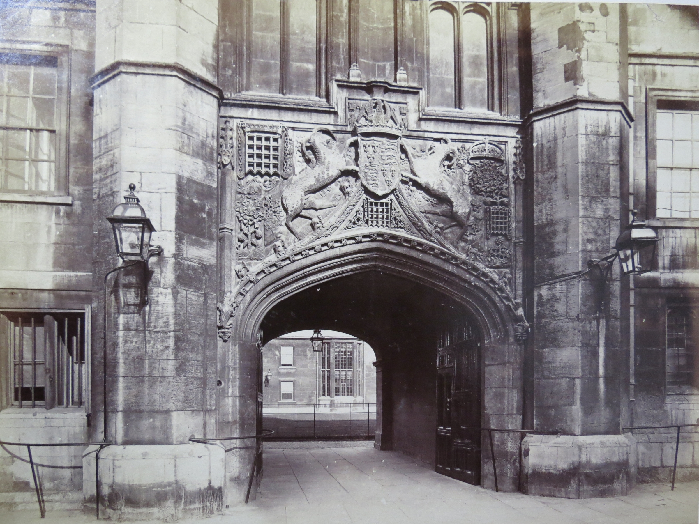 Christ's College, Cambridge University. Image taken from original albumen print from a bound album of 58 Cambridge University photographs. Original 19th century album in the possession of Kimberly Blaker, New Boston Fine and Rare Books.